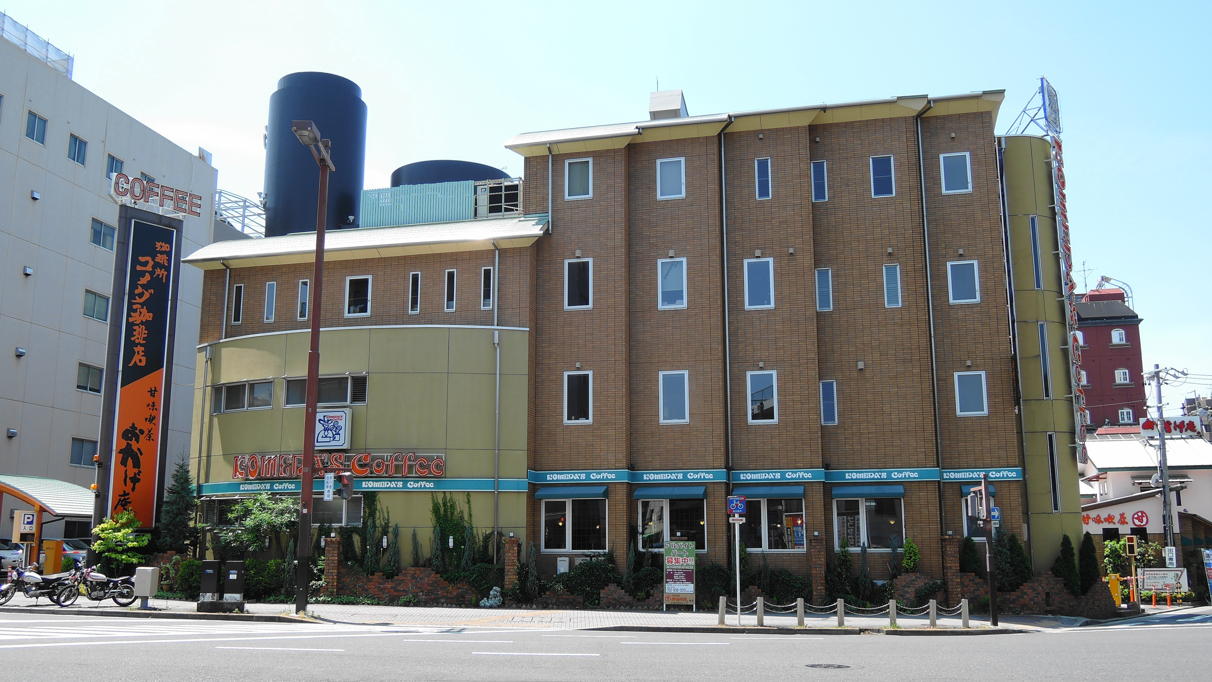 Komeda coffe Aoi store(FC headquarters) ,Aichi prefecture,Japan